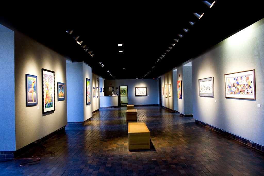 Shot of the Gardiner Art Gallery at Oklahoma State University